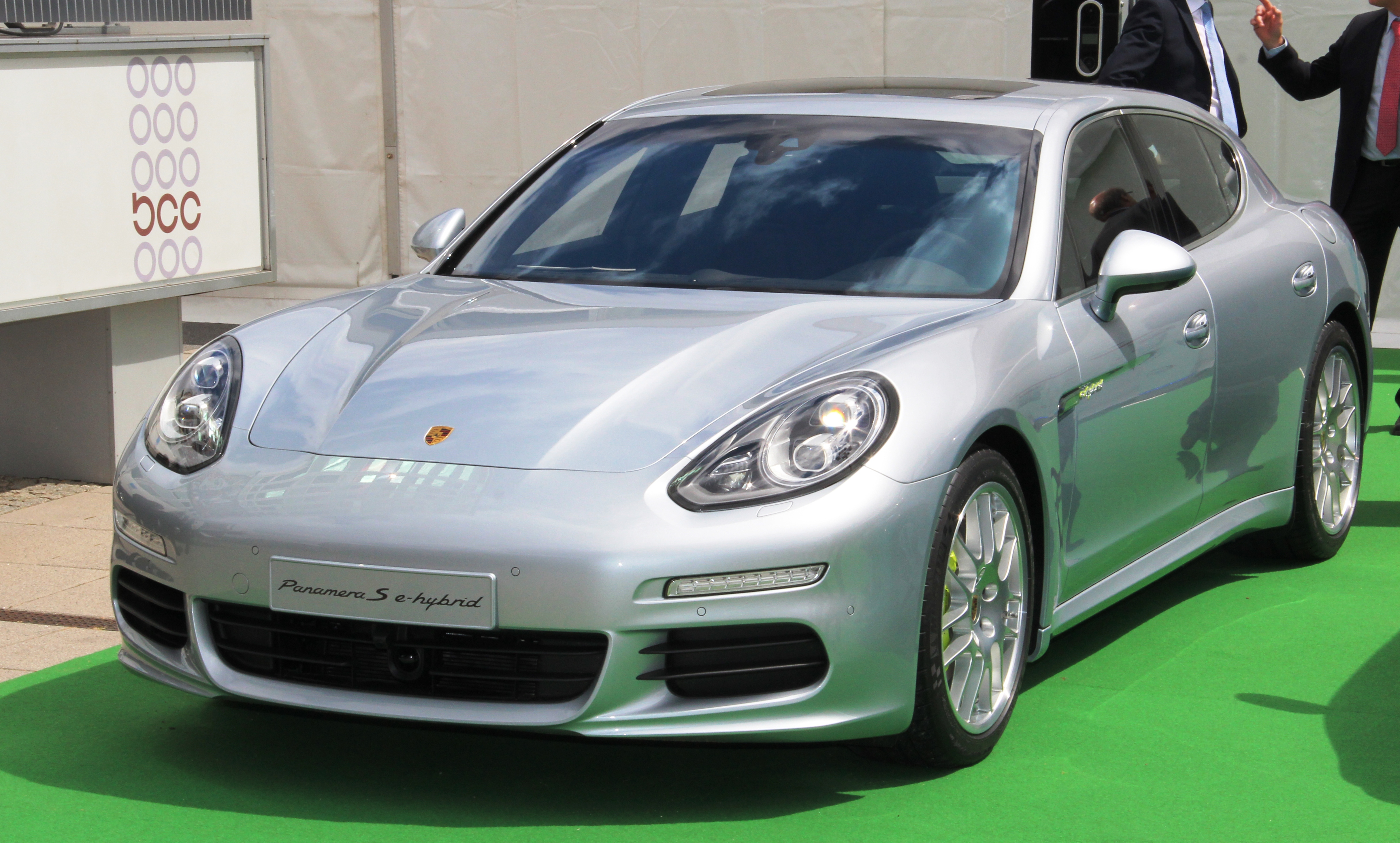 Porsche Panamera Hybrid